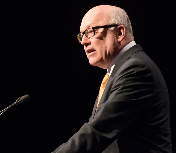 George Brandis speaking at CeBIT 2014